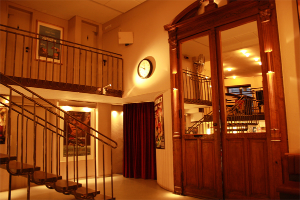 Cinema Ostertor Bremen Entrance